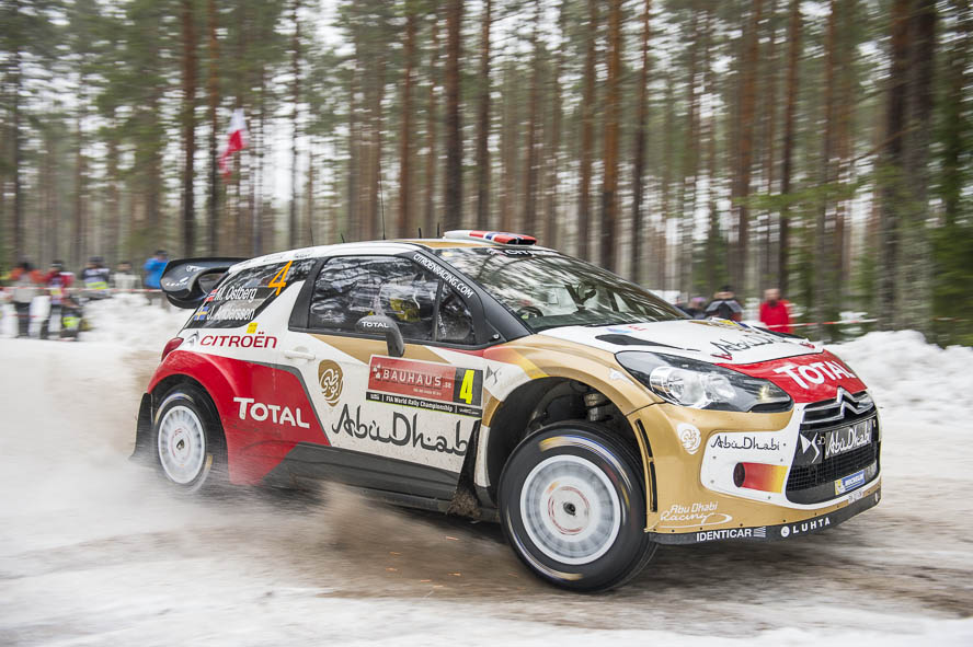 Rally Sweden 2014 Citroen DS3 WRC,Citroen Total Abu Dhabi WRT,Citroen Total Abu Dhabi World Rally Team,Fredriksberg 1,Jonas Andersson,Mads Östberg,Motorsport,Rally,Rally Sweden,Rallye,Rallye Schweden,SS9,WP9